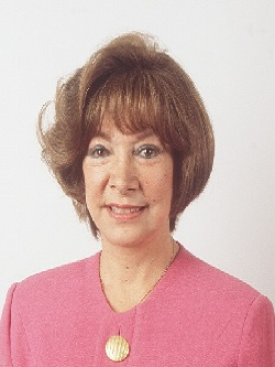 Photograph of Laura Soto González as deputy of the Republic of Chile in 2002